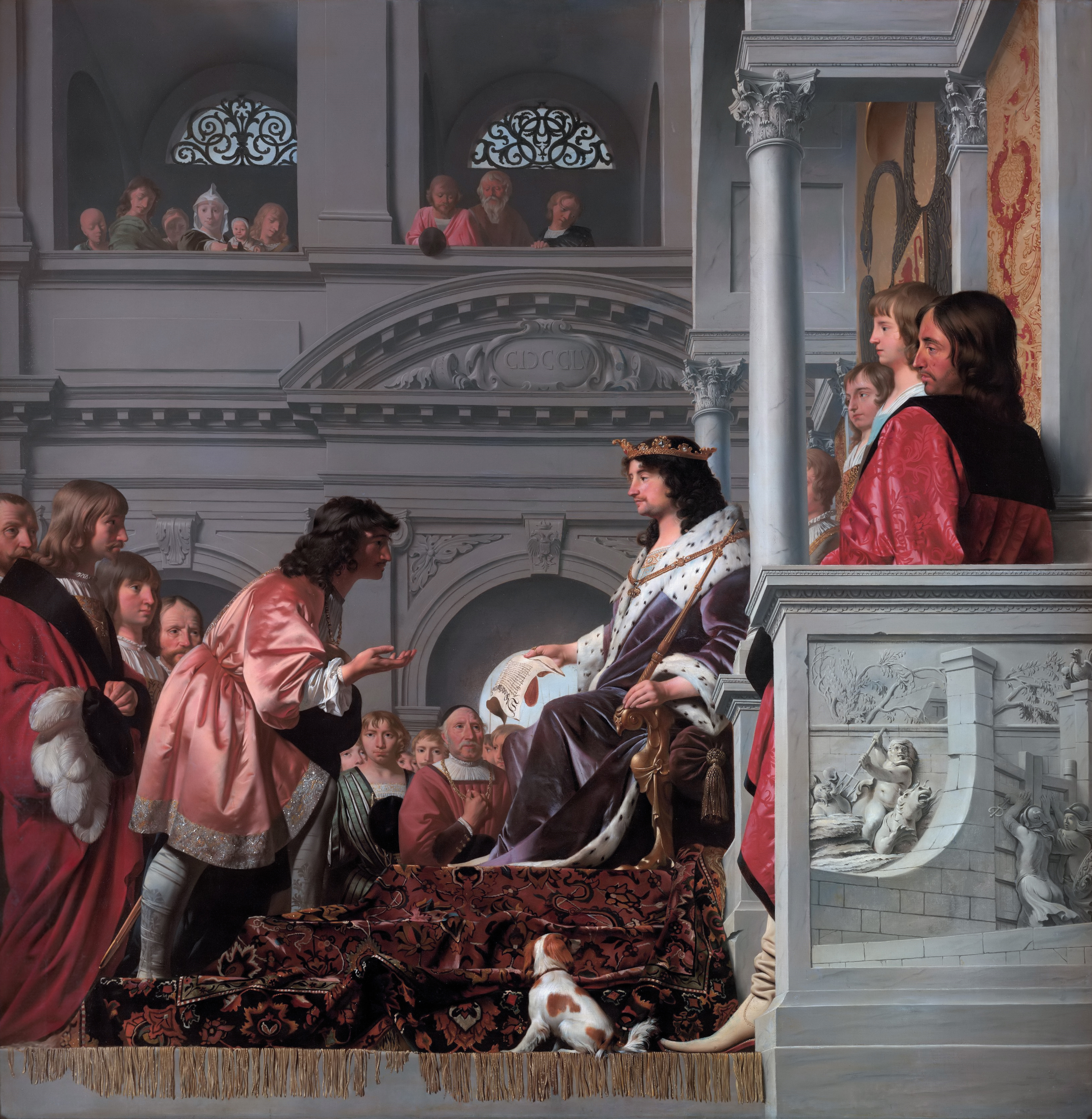 Count William II grants the charter to the Water Board of Rhineland oil on canvas 218 x 212 cm 1655